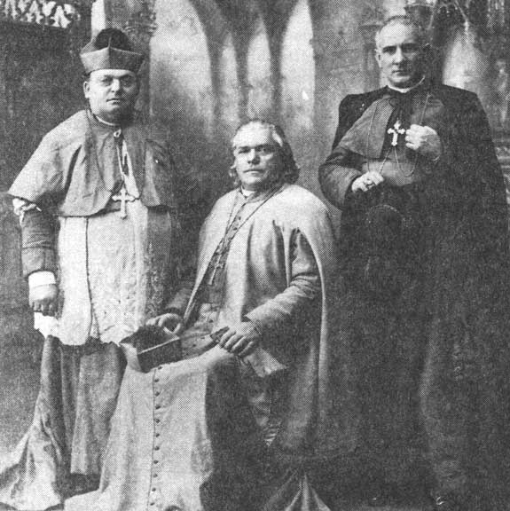 Stephen Kaminski 1898 Paolo Miraglia-Gulotti 1900 Joseph Rene Vilatte 1892